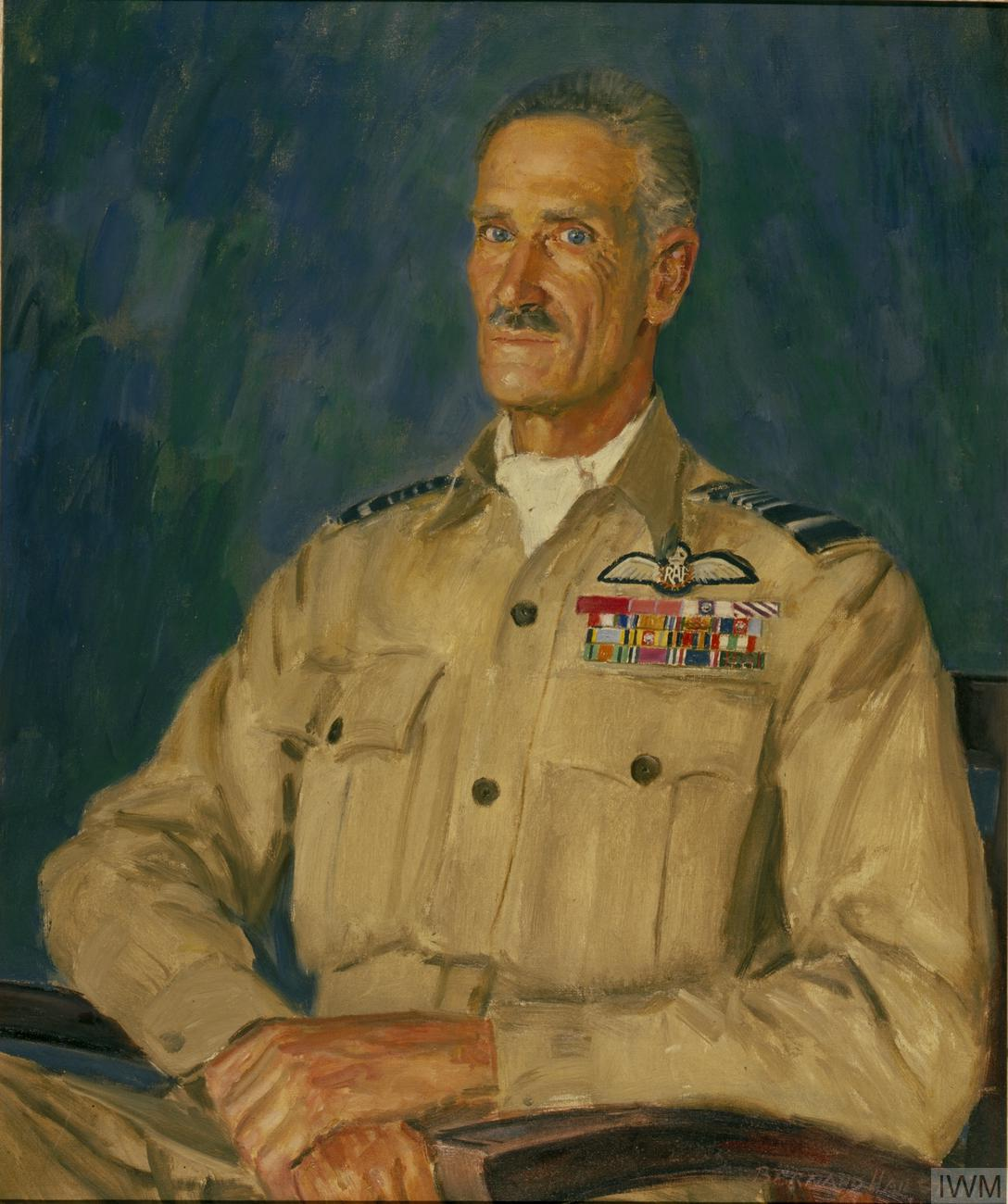 Three quarter portrait of Sir Keith Park, seated, in uniform.